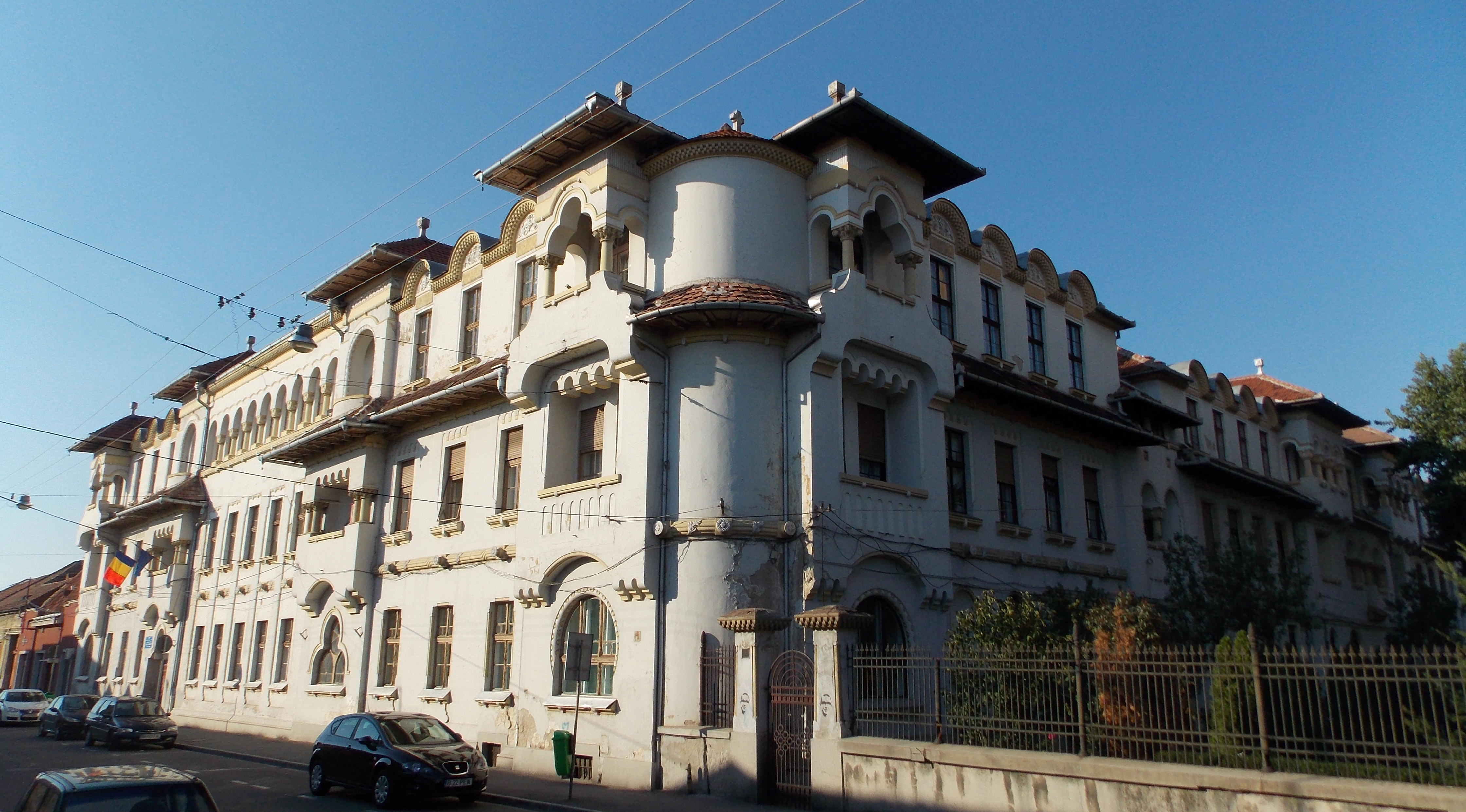 Greek-catholic High-school - Oradea